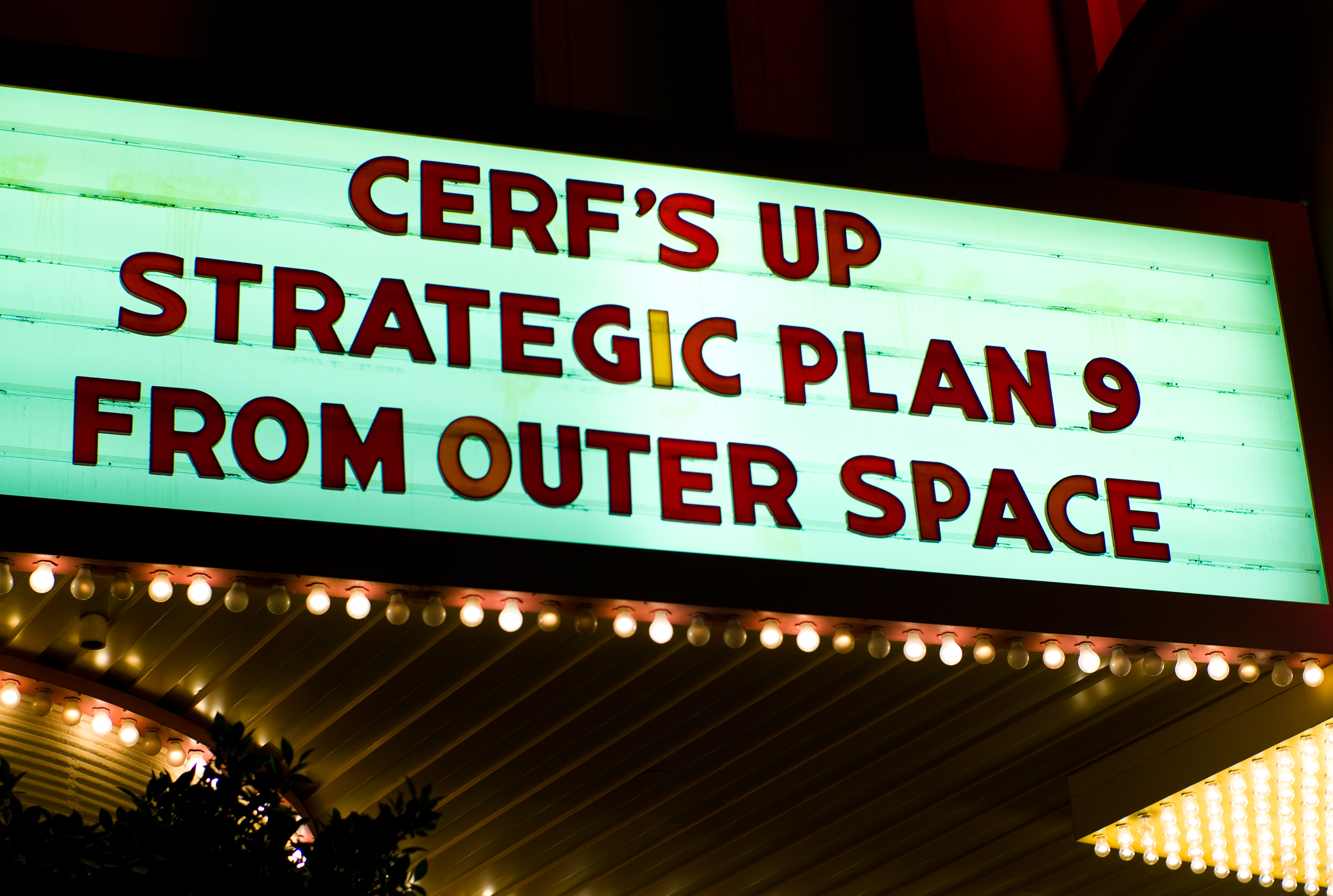 ICANN meeting 2007, Los Angeles, California, United States